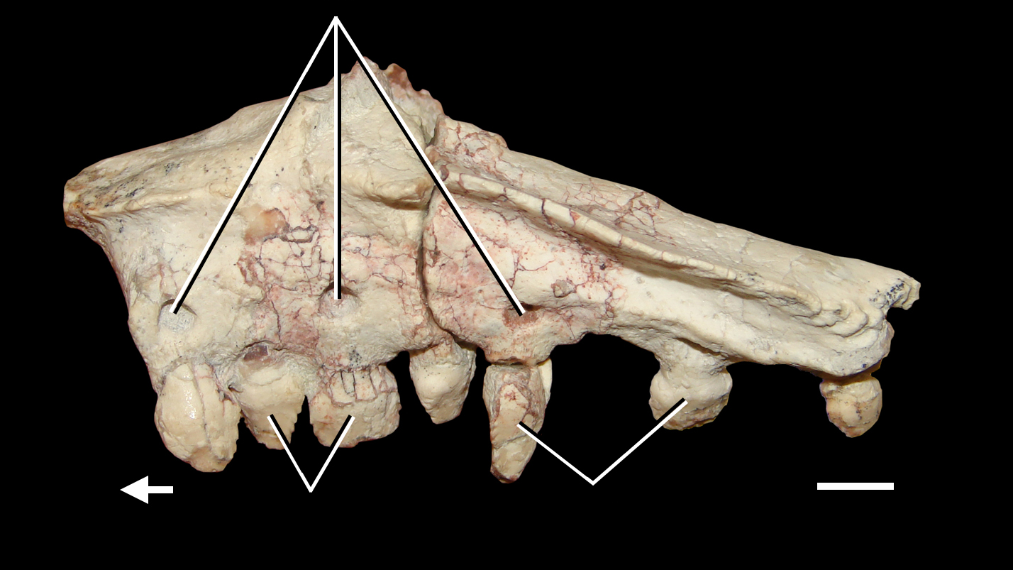 Right palatine of Azendohsaurus madagaskarensis with implanted palatal teeth in medial view, specimen UA 8-27-98-273. Scale bar equals 5 mm, arrow indicates anterior direction. Modified from Ezcurra (2016).